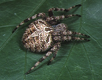 female Neoscona vigilans from Okinawa.